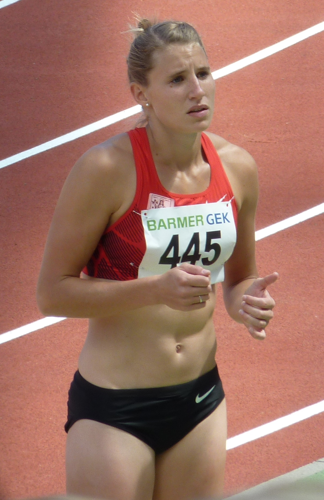 Carolin Schäfer bei den Deutschen Meisterschaften 2015 in Nürnberg